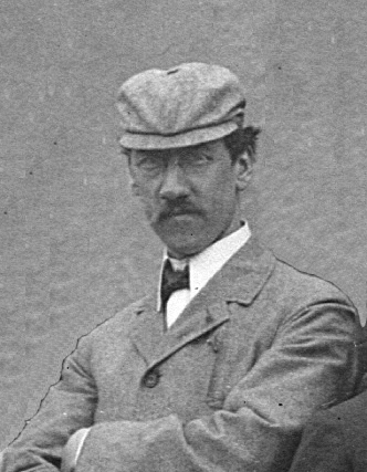 American geologist Heinrich Ries (1871–1951) at age 26. Cropped from a group photo taken at Jefferson Rock, Harpers Ferry, West Virginia.